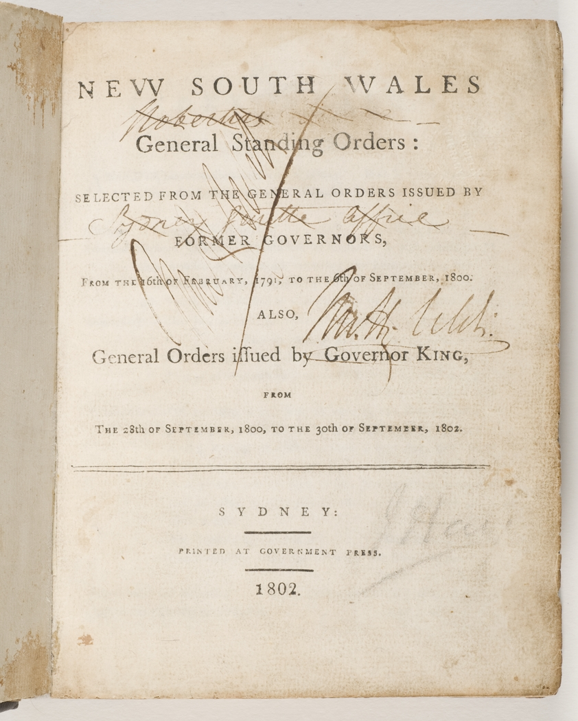 Book of orders. Selected from the General Orders issued by Former Governors, from the 16th of February, 1791, to the 6th of September, 1800: Also, General Orders iffued by Governor King, from the 28th of September, 1800, to the 30th of September, 1802.